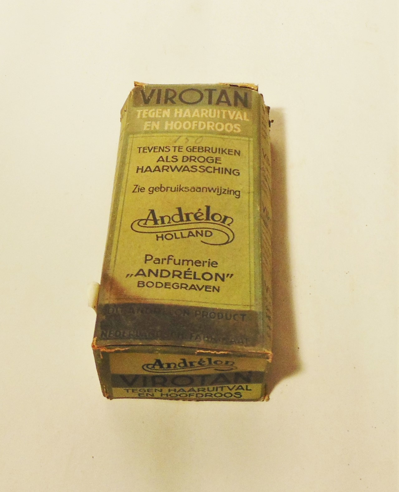 Andrelon dry hairwash Virotan against hairloss and dandruff, 1940s Photographed in the collection of the National Liberation Museum 1944-1945, the Netherlands, archive number 094.084